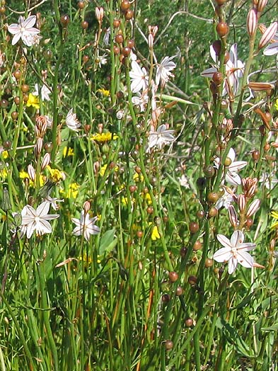 Asphodelus fistulosus Photo Jean Tosti (24/04/04, Deltebre, Espagne) Licence GFDL Jean Tosti 04/2004